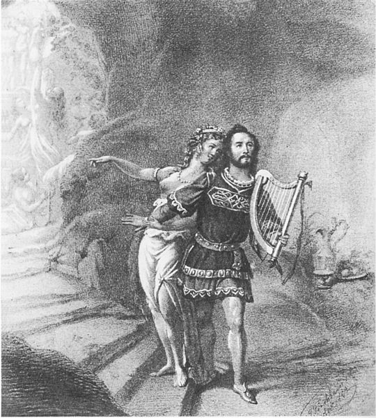 Premiere of Richard Wagner's opera, Tannhäuser on 19th October 1845, with Joseph Tichatschek as Tannhäuser and Wilhelmine Schröder-Devrient as Venus. Drawing by F. Tischbein (1845).